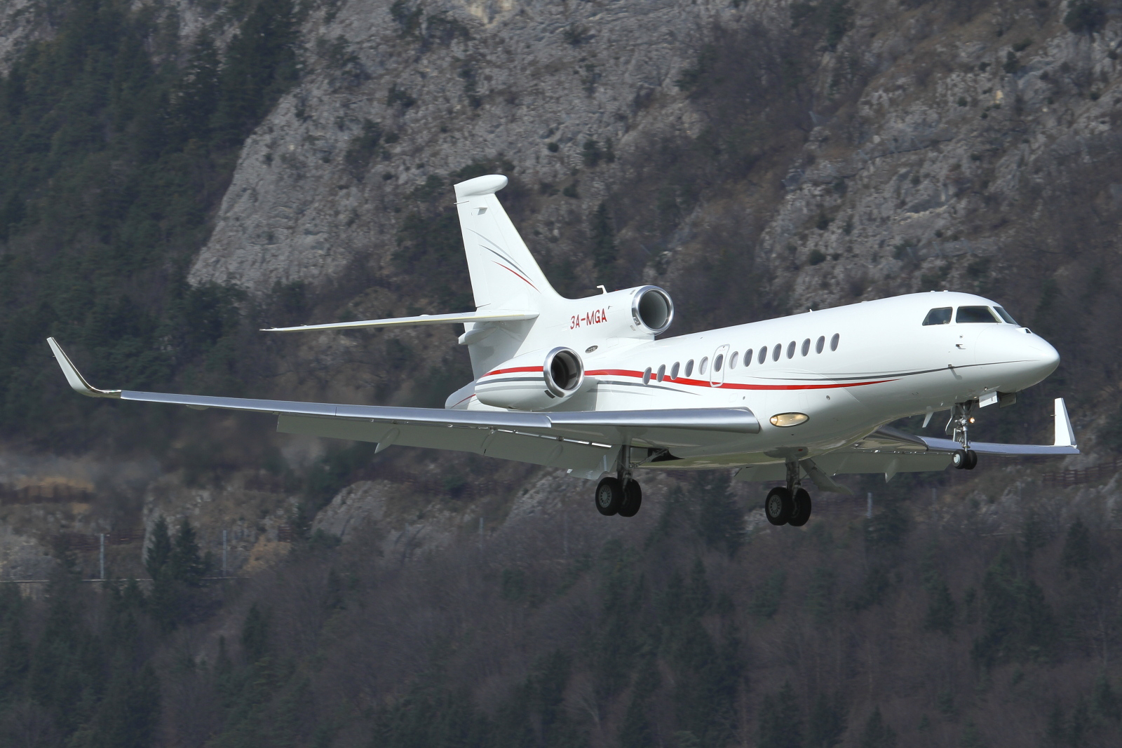 Monaco Government Dassault Falcon 7X on finals into Innsbruck